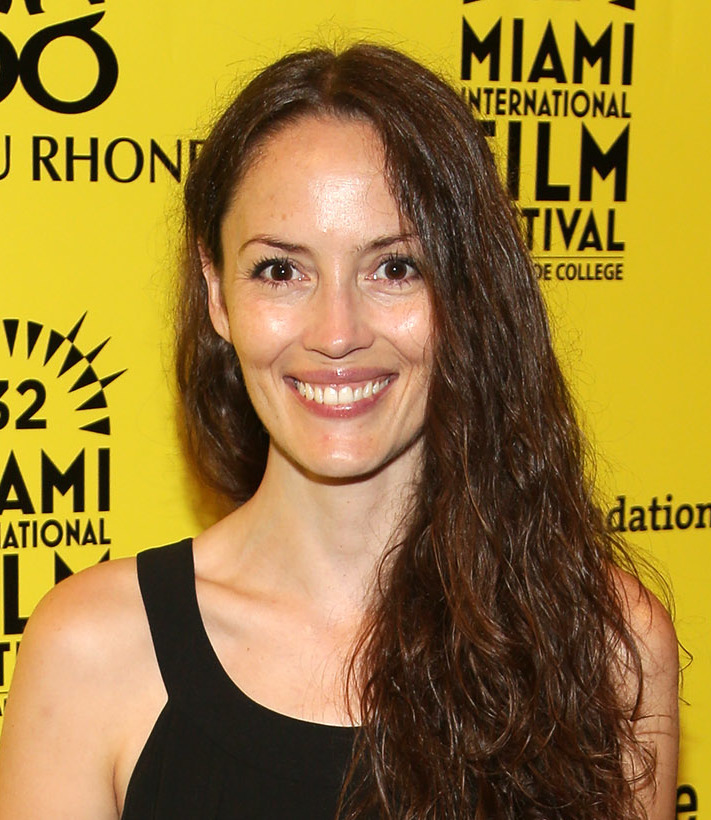 Ingrid Isensee (actress, Voice Over) on the red carpet for the film "Wild Tales" at the Miami International Film Festival